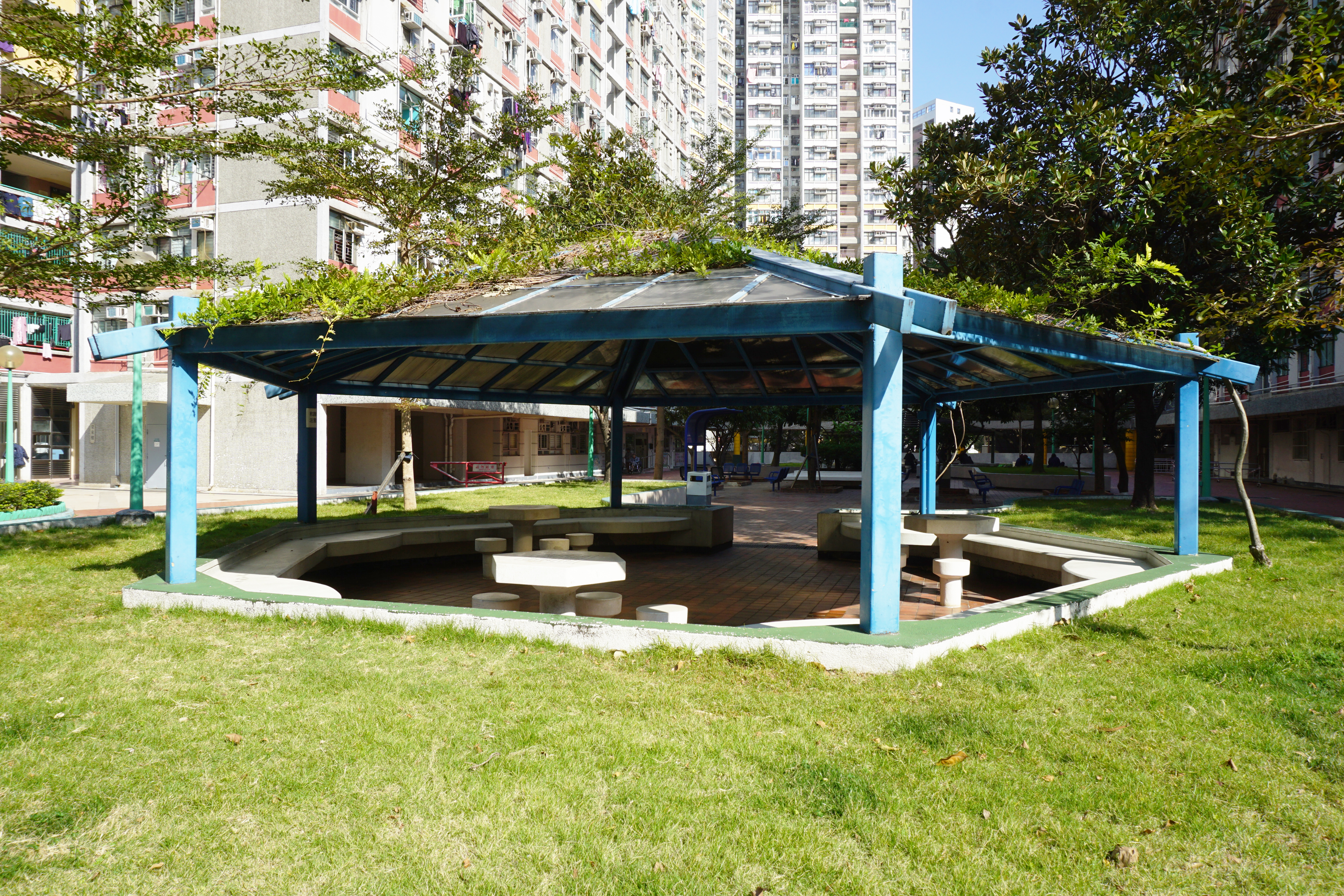 Tung Tau Estate in Wong Tai Sin, Hong Kong.